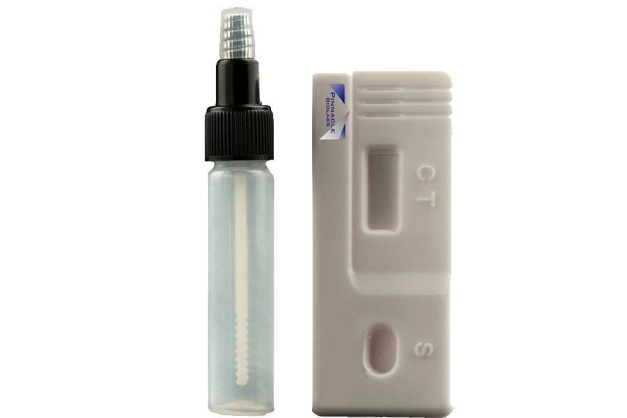 A fecal immunochemical test for the detection of occult blood in stool, commonly used for colorectal cancer screening